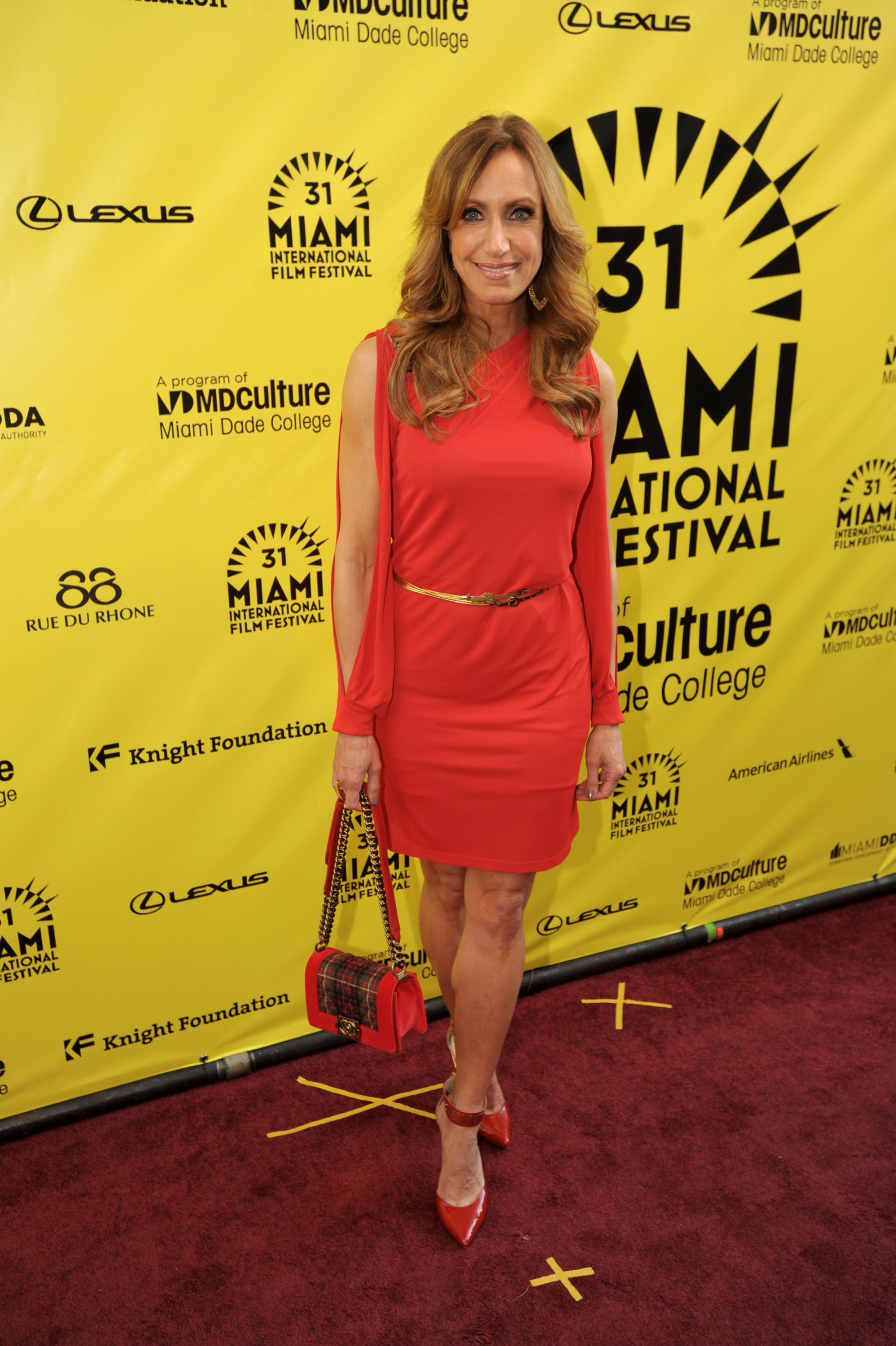 Lili Estefan at the 2014 Miami International Film Festival presentation of "An Unbreakable bond" Photo by: World Red Eye